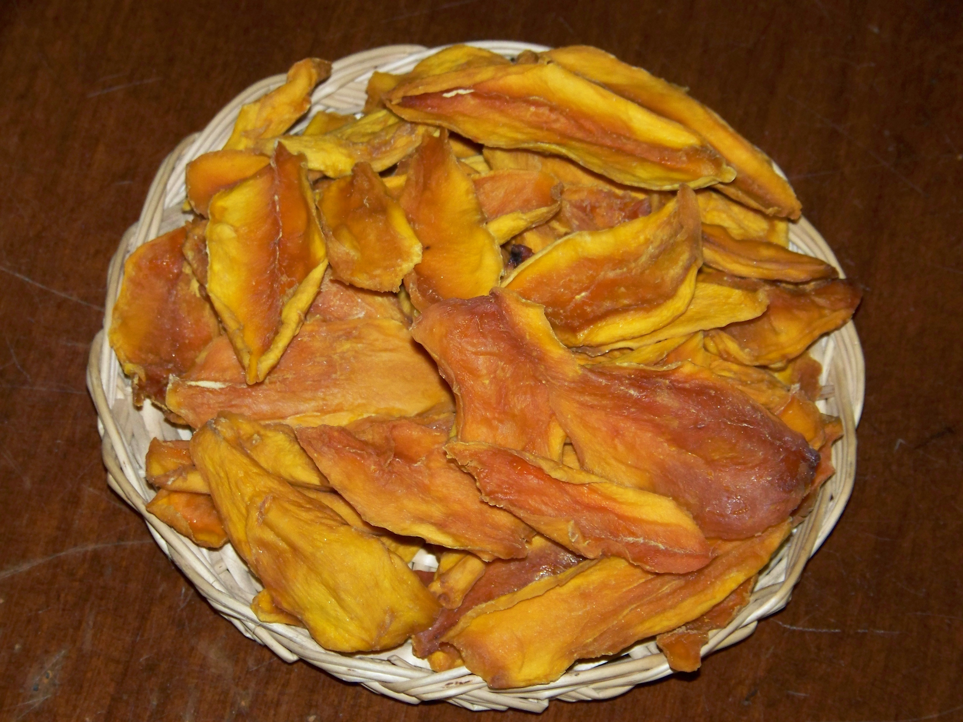 Dried mangoes